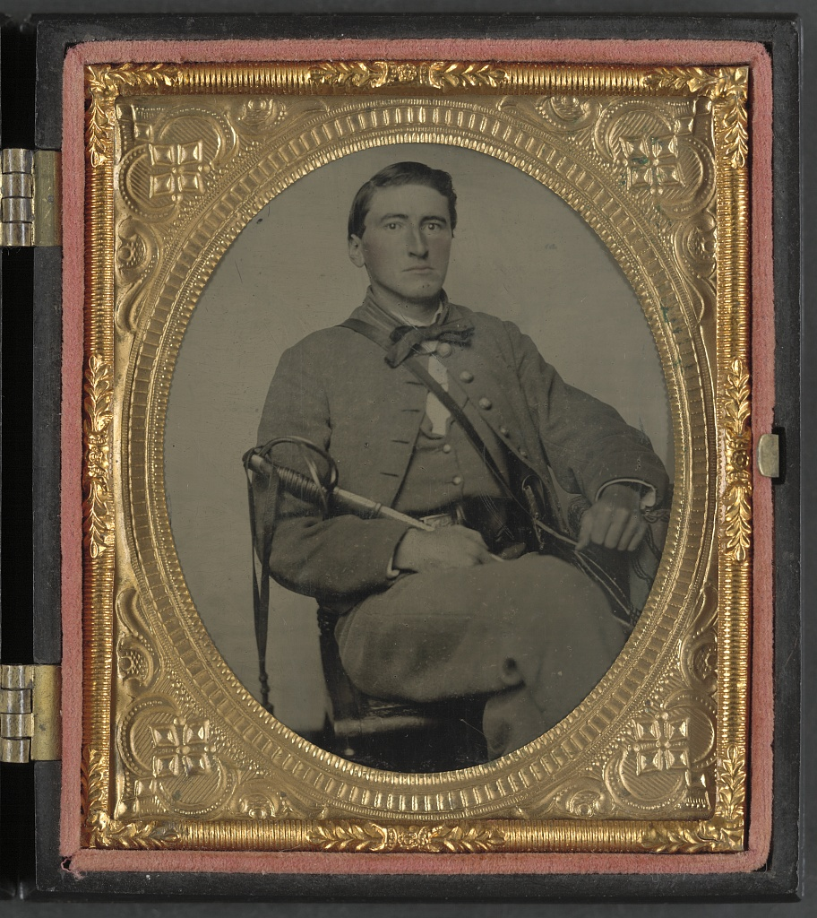 Title: Captain Alexander Dixon Payne of Co. H, 4th Virginia Cavalry Regiment, with sword Abstract/medium: 1 photograph : sixth-plate tintype, hand-colored ; 9.4 x 8.3 cm (case)